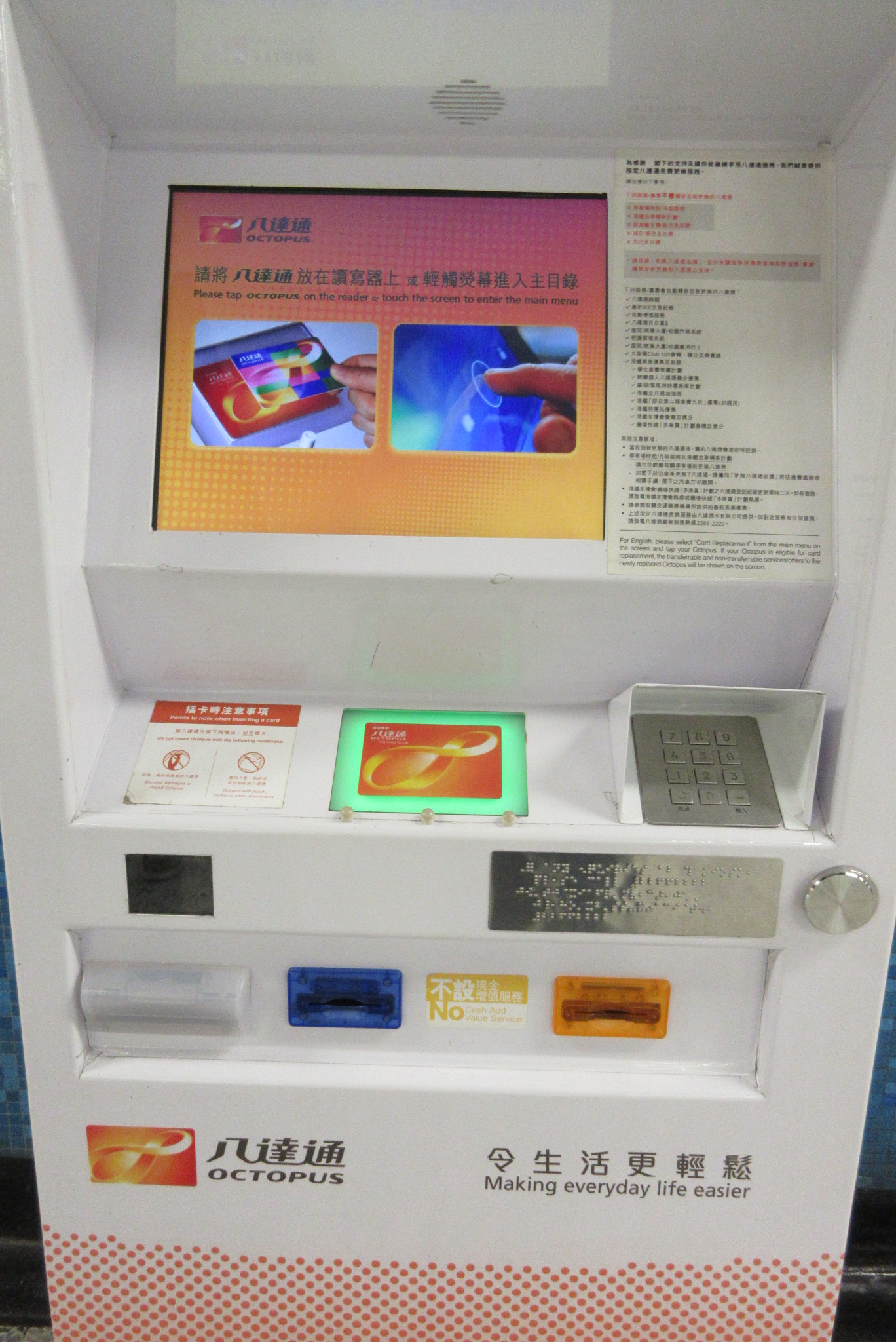 Lam Tin Station 藍田站 in Jan 2017